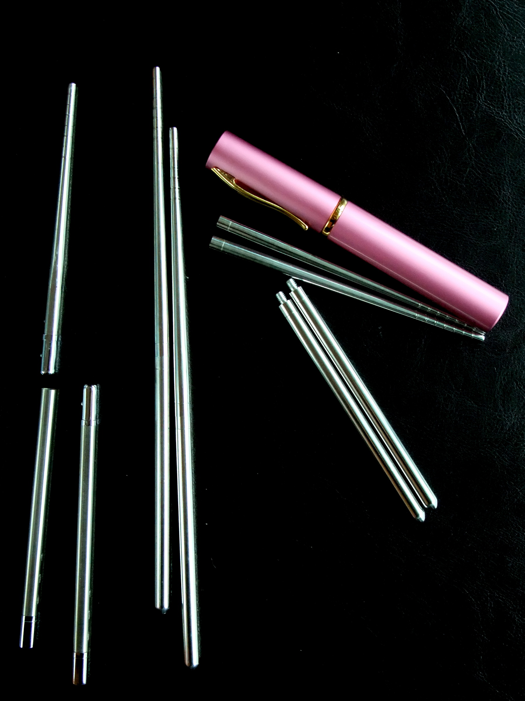 Reusable metal chopsticks